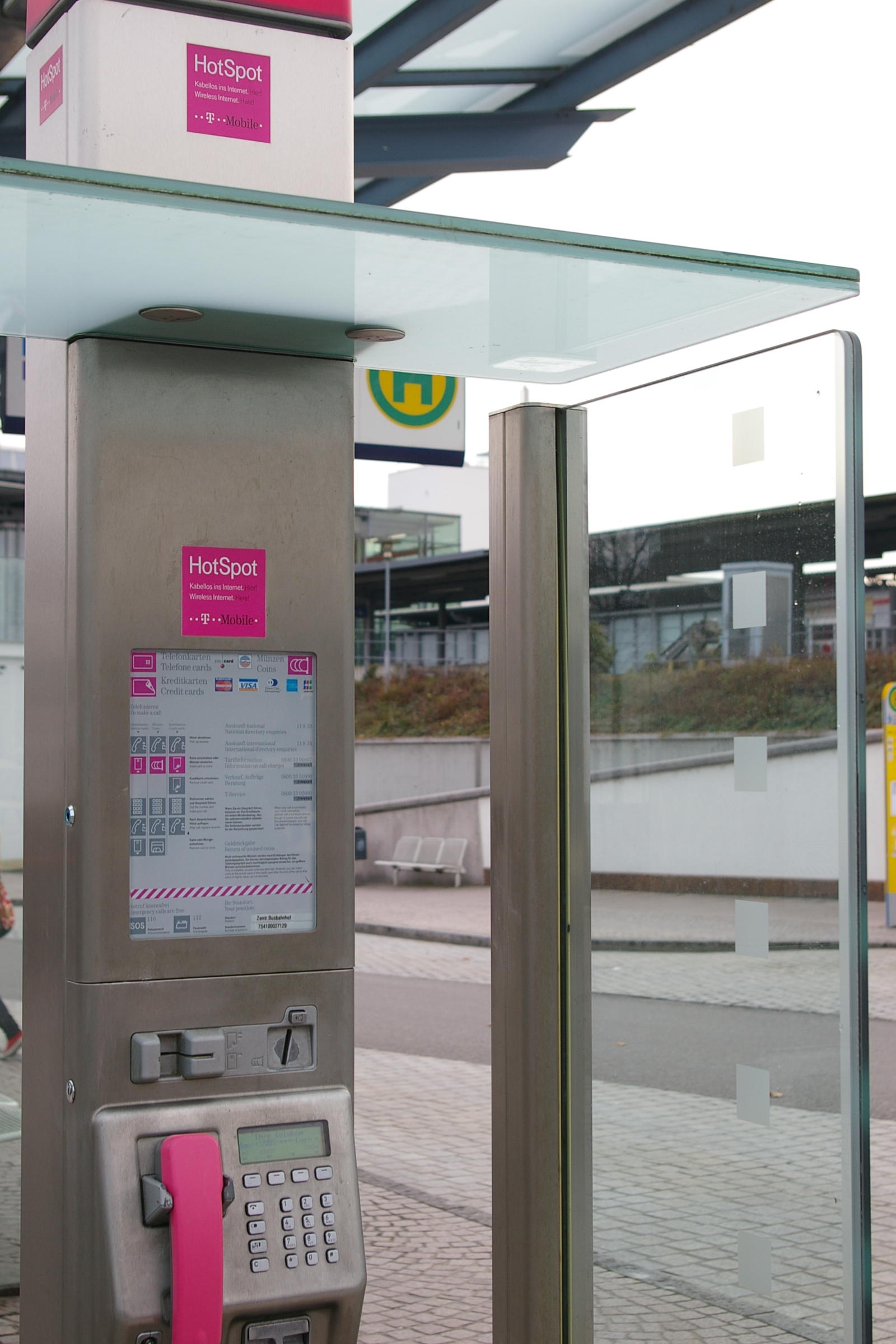 An Internet Hotspot in a German pay phone. If you are here with a W-LAN capable laptop, you can go into Internet. The german market leader, T-Mobile, has also established such access points outside Germany, for example in New York City.